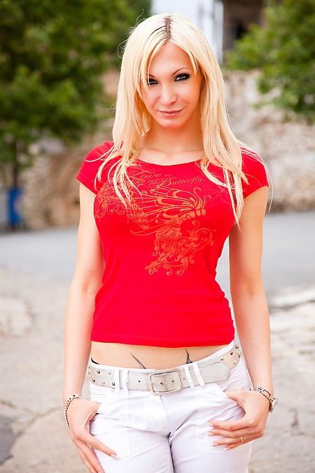 Profile image of Susan Wayland, released under the terms of Creative Commons license.